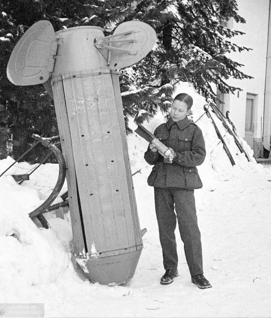 The so-called Molotov bread basket Soviet fire bomb used in the Winter War.